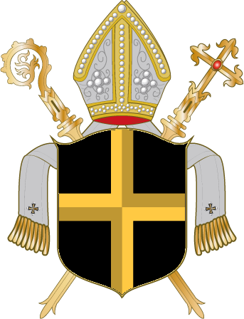 Coat of arms of Diocese of Rottenburg-Stuttgart